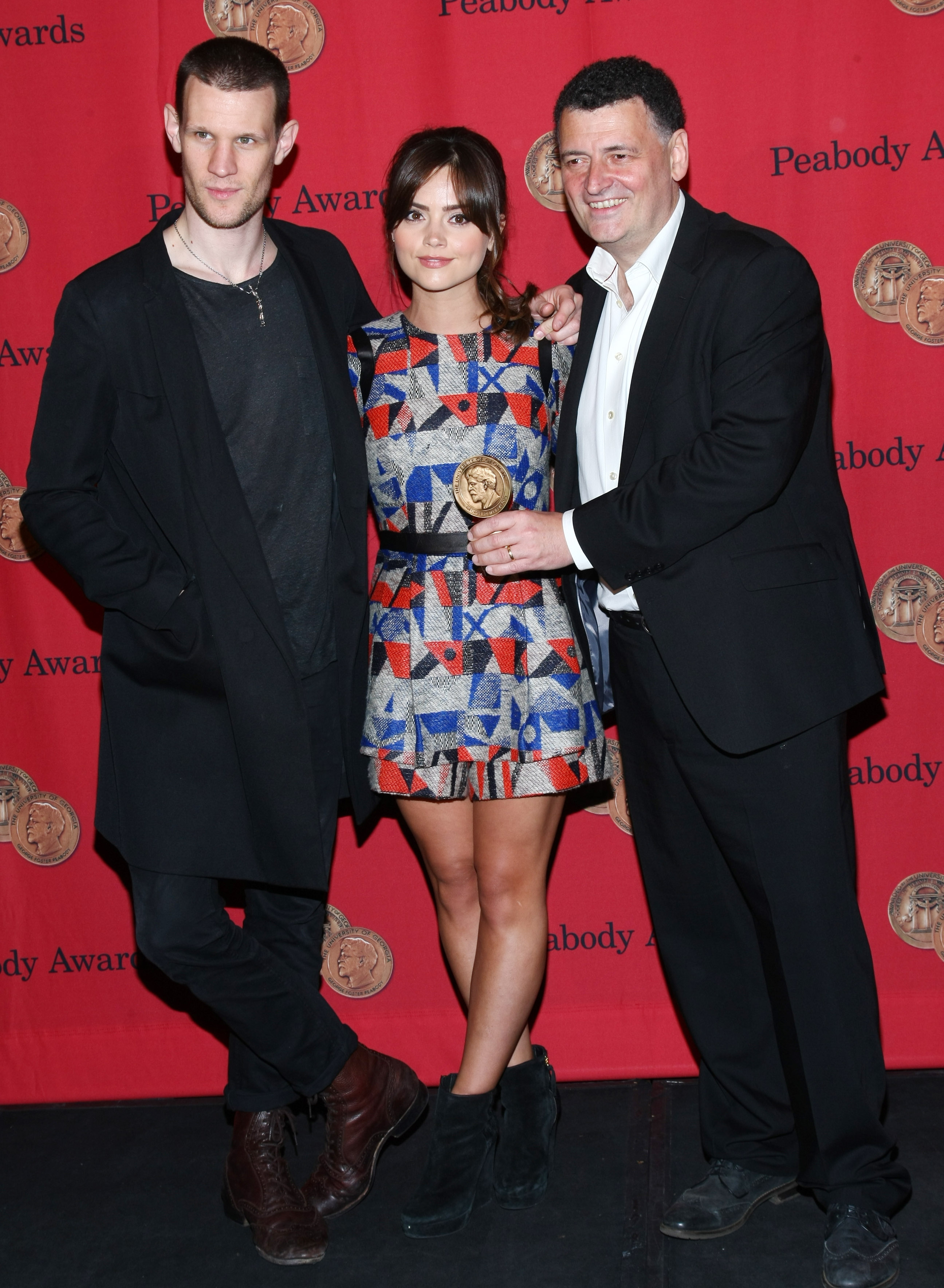 PHOTO CREDIT: ANDERS KRUSBERG / PEABODY AWARDS Matt Smith, Jenna Louise Coleman and Steven Moffat accepting the award for "Doctor Who" 72nd Annual Peabody Awards Luncheon Waldorf-Astoria Hotel May 20, 2013